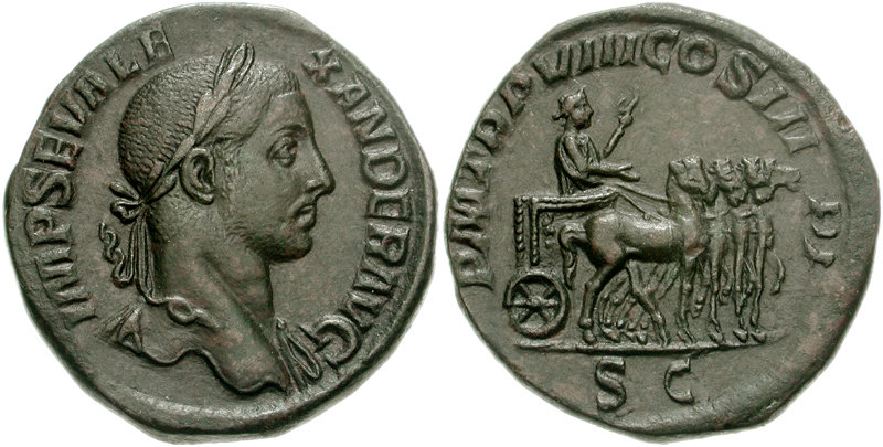 Severus Alexander. AD 222-235. Æ Sestertius (29mm, 19.64 g, 12h). Rome mint. Special emission, AD 229. Laureate bust right, slight drapery; Severus Alexander driving triumphal quadriga right, holding eagle-tipped scepter and reins. RIC IV 495; BMCRE 575; Banti 93.